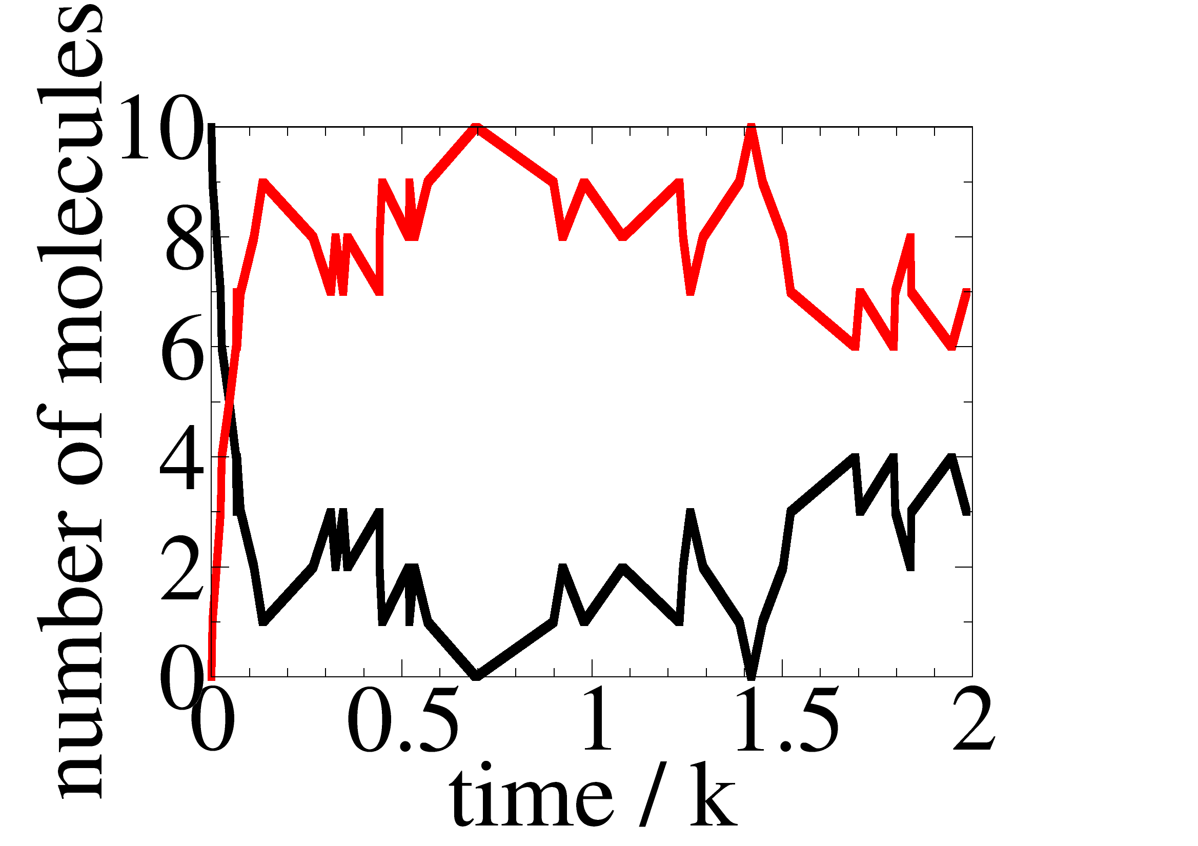 Gillespie alogrithm applied to 10 A and 10 B molecules that react reversibly to form AB dimers. Forward rate is 2, back rate is 1.